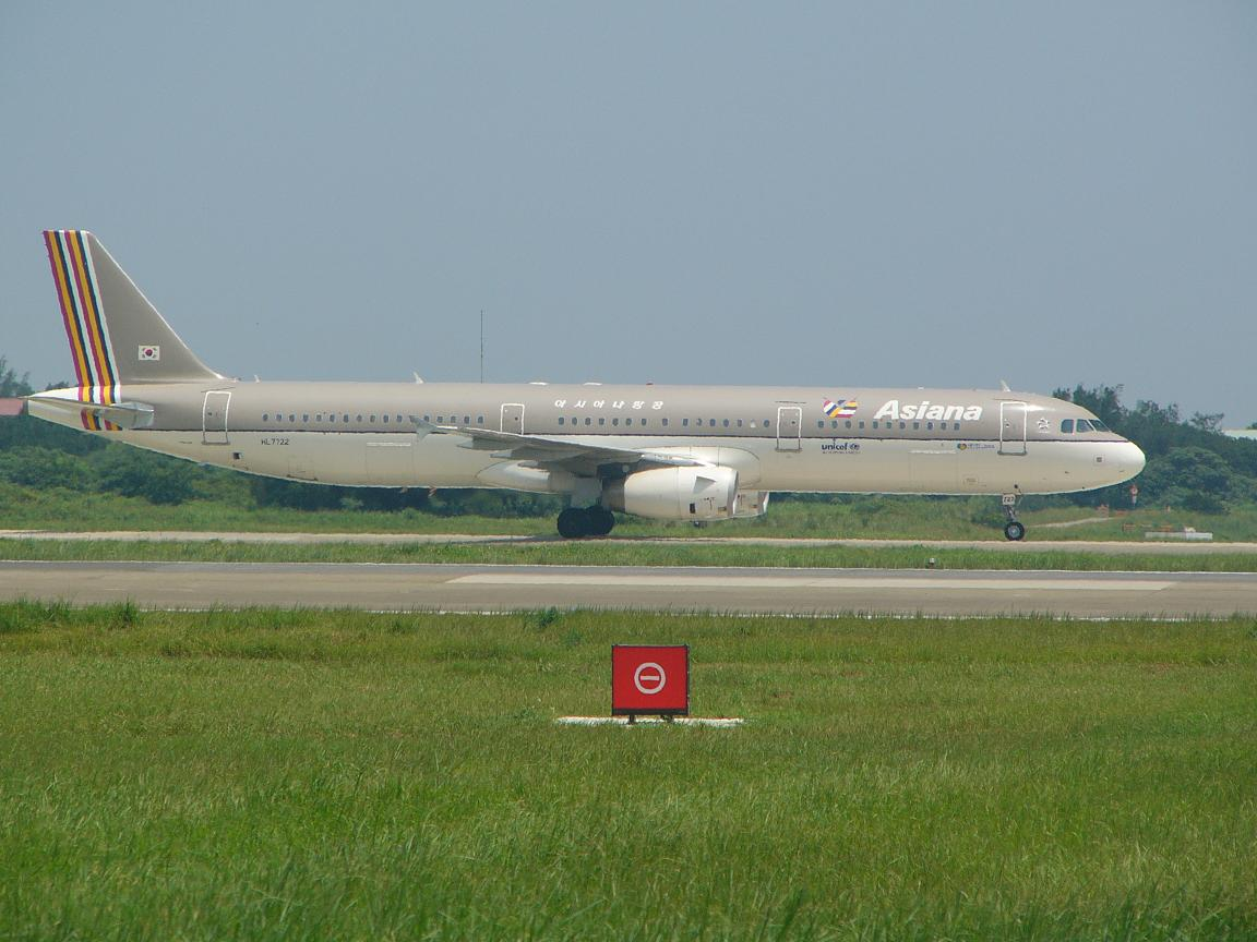 Asiana Airlines Airbus A321-200 Reg No. HL7722 Photo by Ellery Cheng near C.K.S. Intl. Airport in Taiwan Apr. 30th 2005